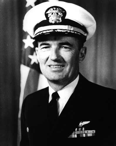 Portrait of VADM F. C. Turner, USN